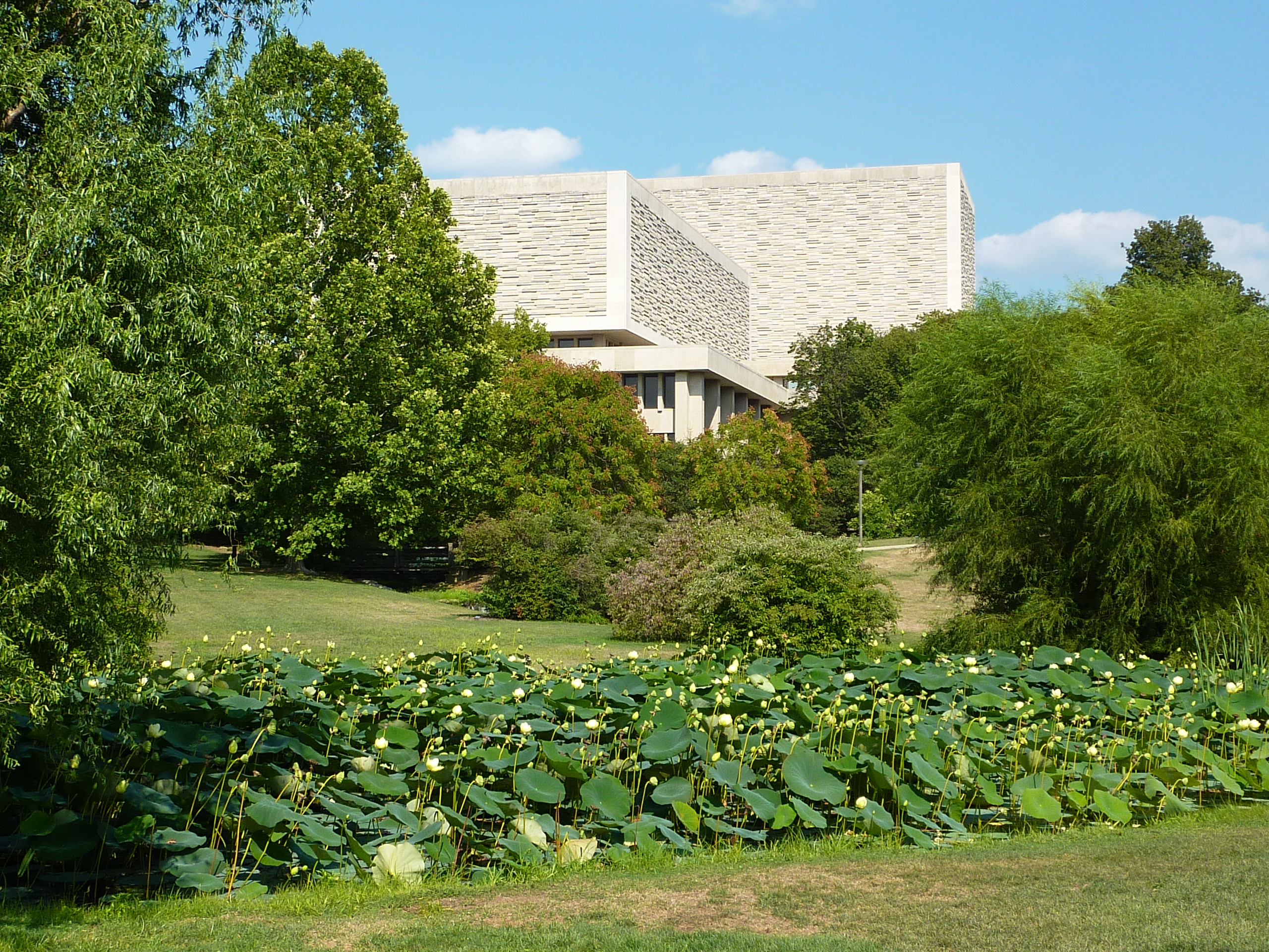 Herman B Wells Library seen from the west. Looking over the lotus pond in IU Arboretum.